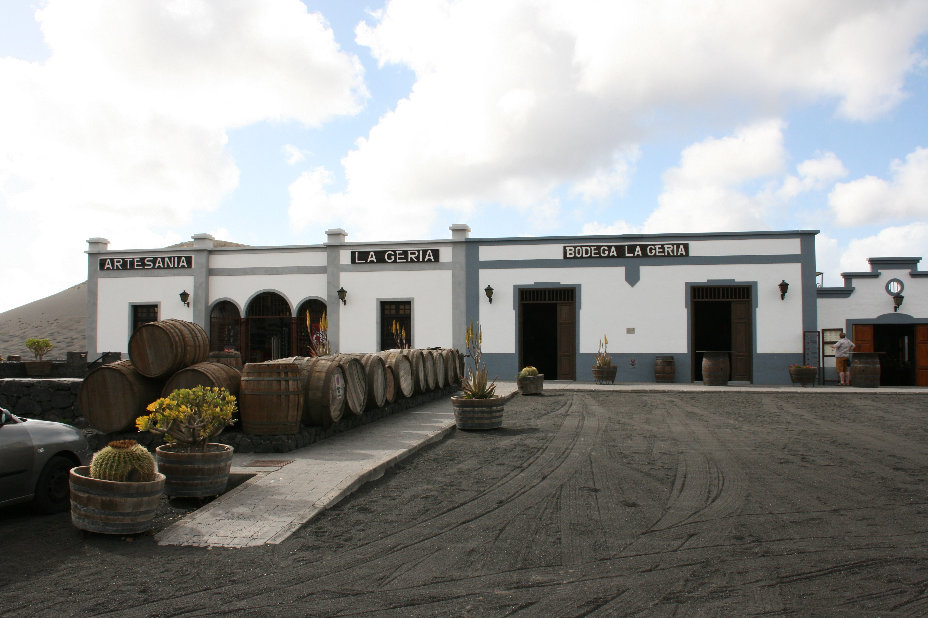 Bodega La Geria, LZ-30 in Yaiza, Lanzarote, Canary Islands